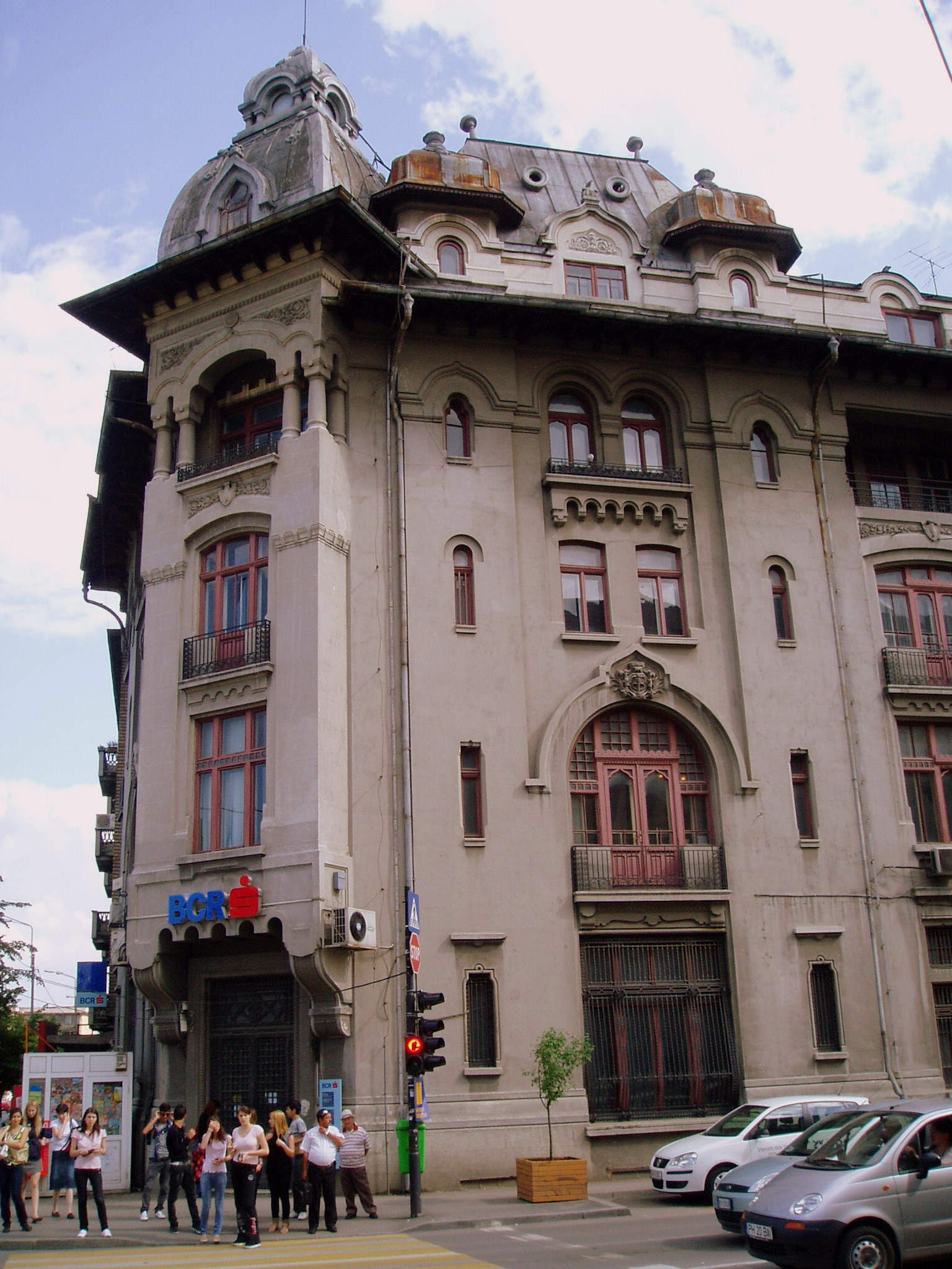 Creditul Prahovei done by Toma T. Socolescu in 1923. This building is classified historical monument and is located Strada Tache Ionescu, nr. 1, Ploieşti, Judeţul Prahova, Romania. We are the only heirs and descendants of Toma T. Socolescu (died in 1960 in Bucharest) and therefore owner of all his intellectual rights.